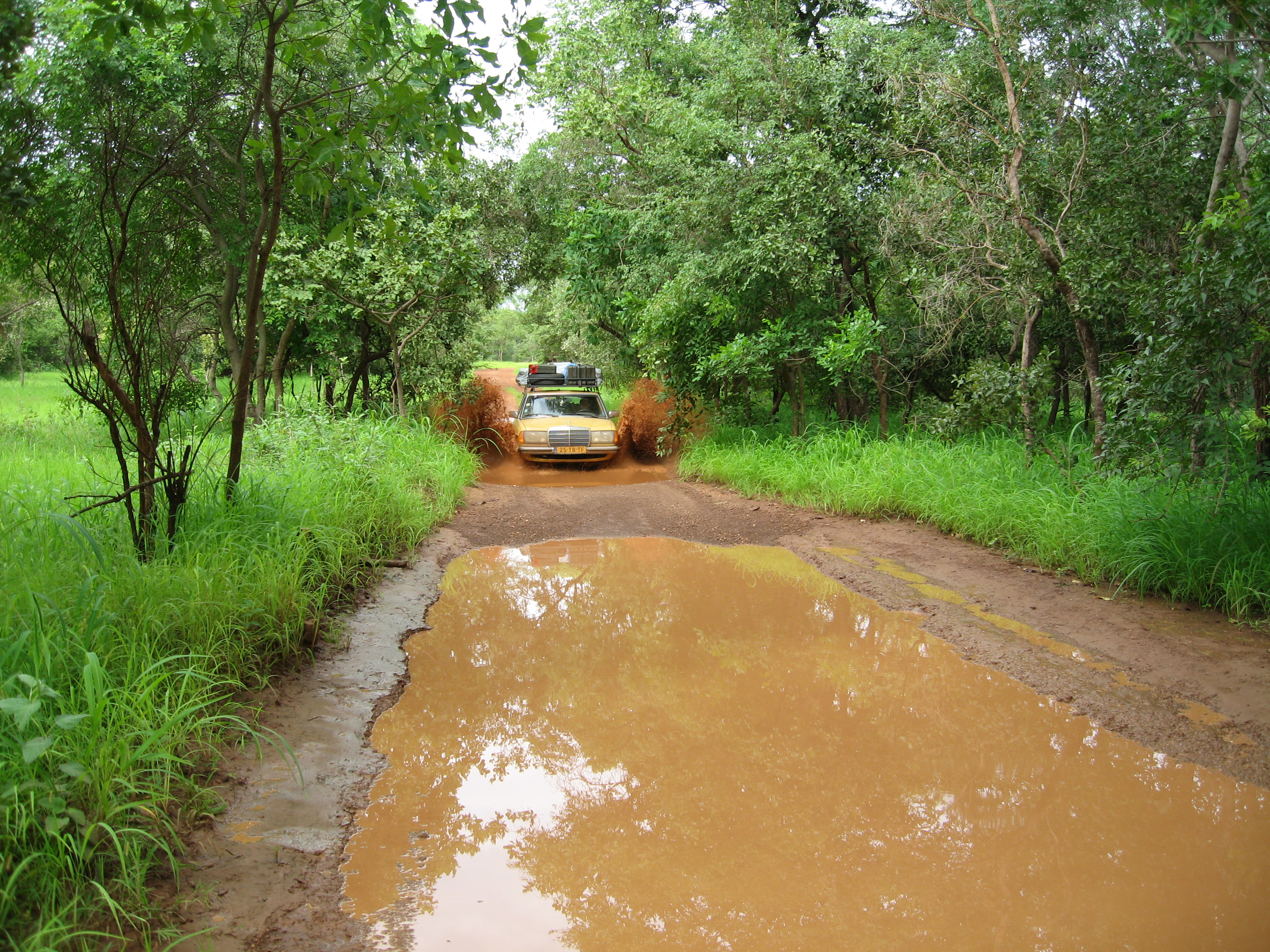 Driving in Niokolo Koba NP, Senegal